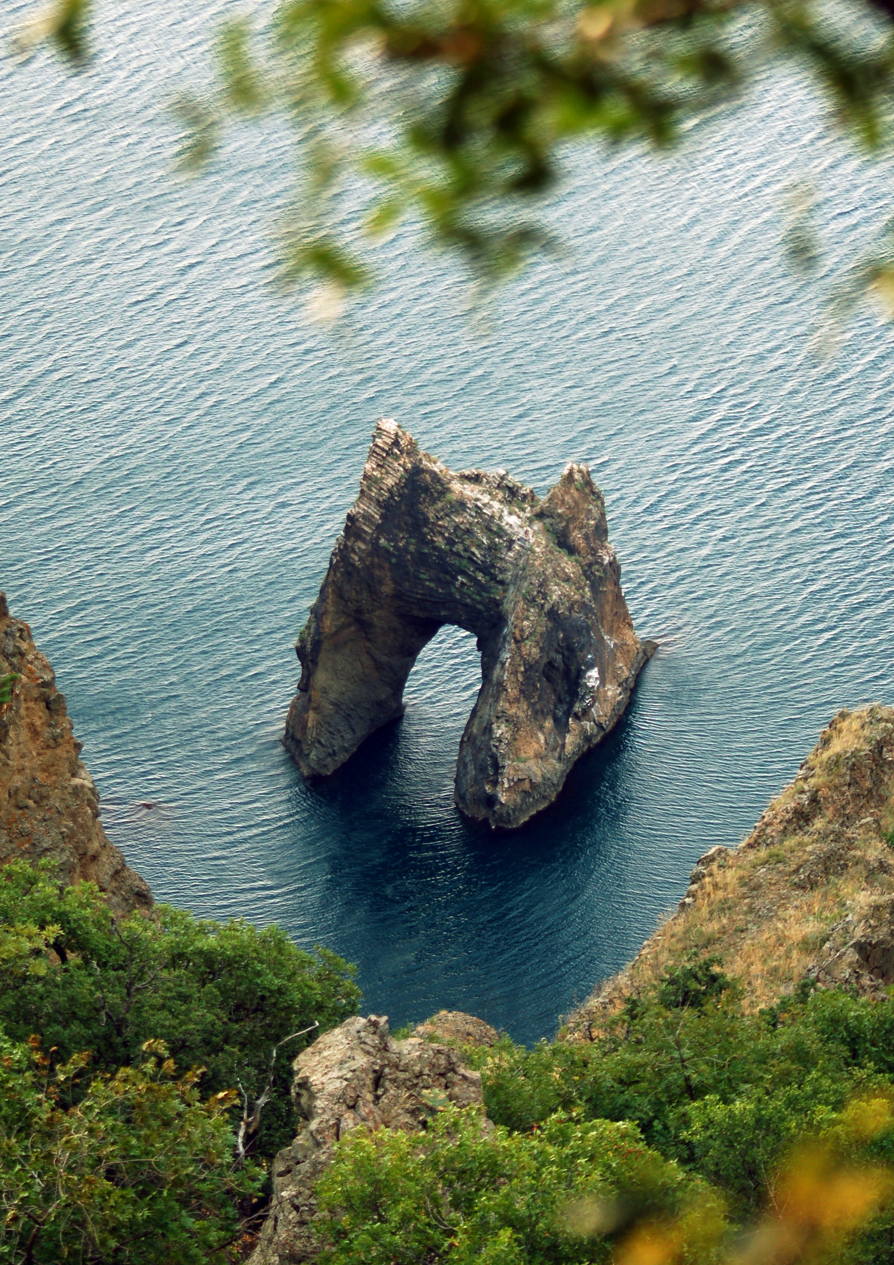 The Mount Karadah and the Golden Gate, Crimea